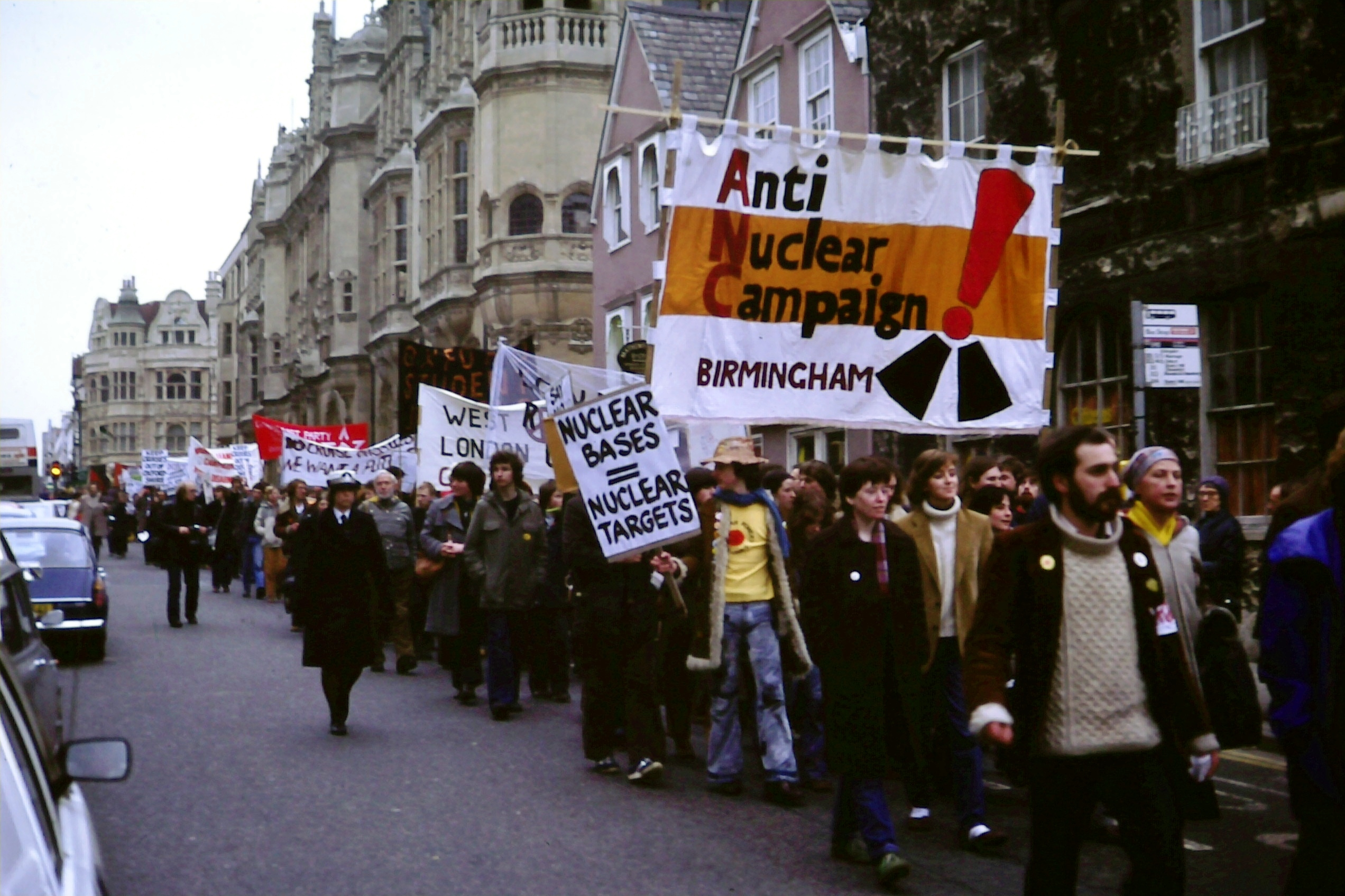 Anti-nuclear weapons protest march, Oxford, England, 1980. The protestors, seen here marching past Oxford's Town Hall, were objecting to the proposed stationing of cruise missiles at the U.S. Air Force base at Upper Heyford